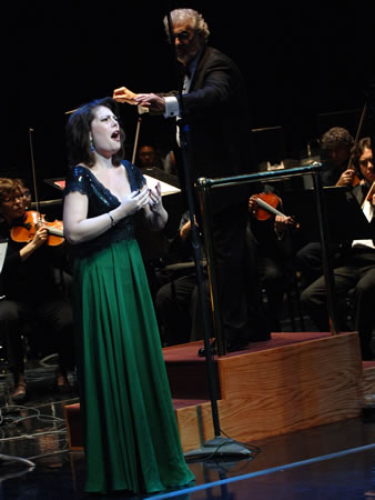 Opera singer Sondra Radvanovsky sings at the National Endowment for the Arts Opera Honors on Friday, October 31, 2008 at the Harman Center for the Arts in Washington, DC.